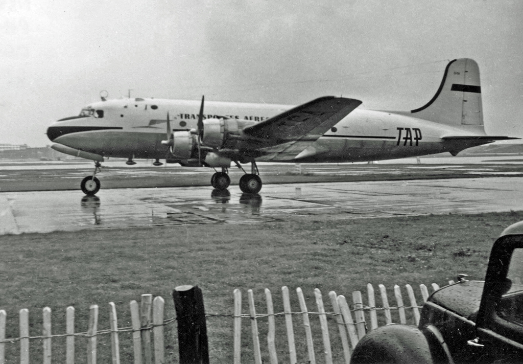 Douglas Skymaster CS-TSA of TAP Portuguese Airlines at London (Heathrow) Airport